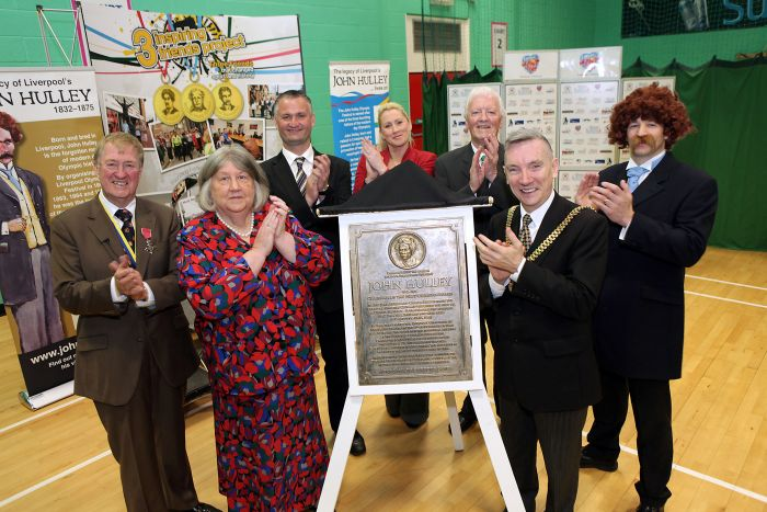 The founding father of the Olympic games, John Hulley, born 1832, is officially credited with setting up the first Olympic festival in the city, some 30 years before the Athens Olympics took place, with the unveiling of a plaque at Lifestyles gym on Steble Street. Left to right - ROBIN BAYNES MBE Founder of Liverpool Heartbeat charity and head of New Start, Liverpool; DAME LORNA MUIRHEAD DBE Lord-Lieutenant of Merseyside; TOM SOUTHERN Director of Life Survival, Operation: Pathfinder CIC and Foundation for the Prevention of Blindness; NICOLA BROADLEY Organiser of the John Hulley Family Fun Day at Aintree; RAY HULLEY DMS Family Historian, Vice-president and Southern representative of the Manchester & Lancashire FHS; COUNCILLOR GARY MILLAR Lord Mayor of Liverpool; LIAM HANLON Director at The Forshaw Group Liverpool, dressed as John Hulley.